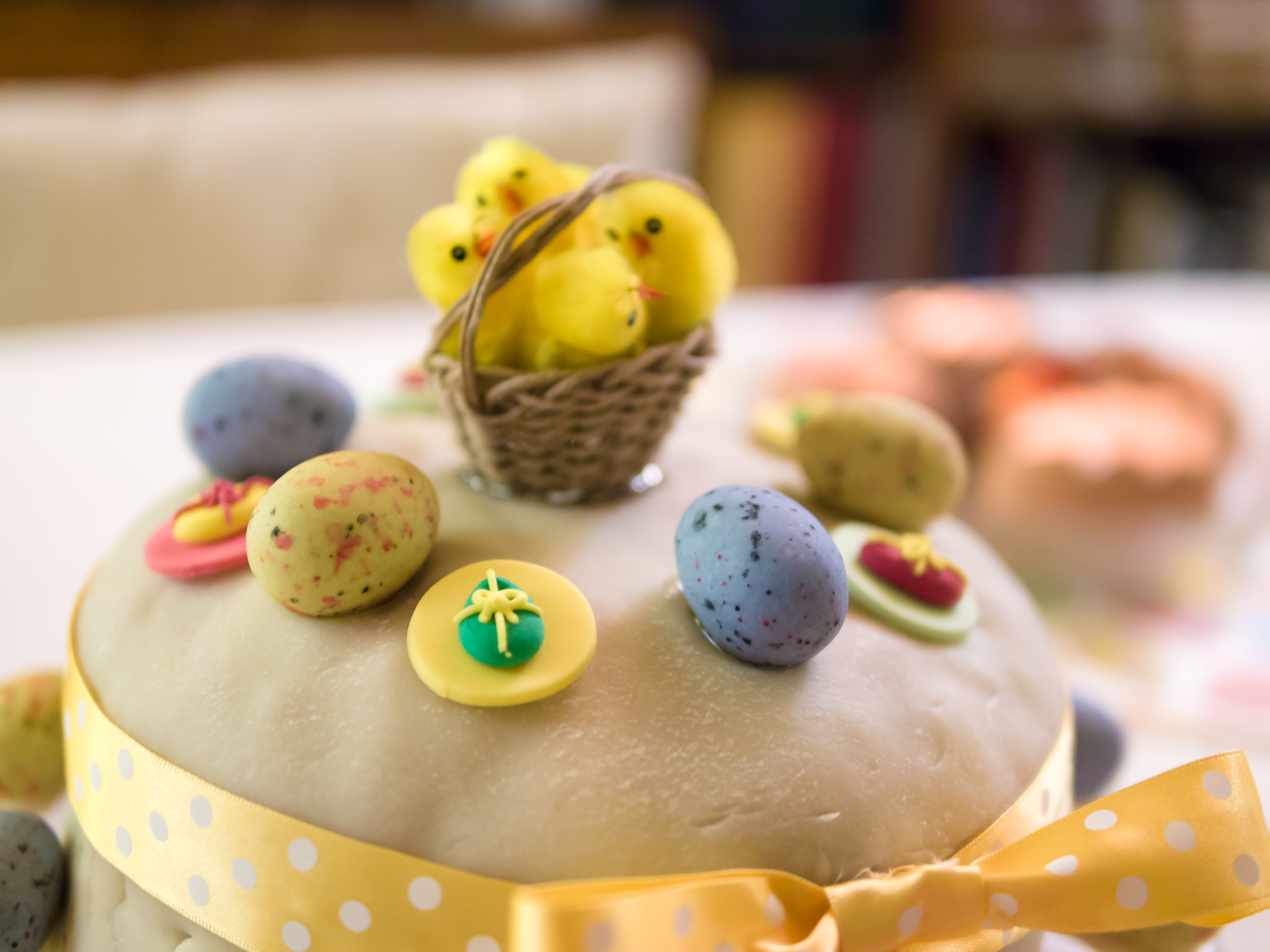 Decorated